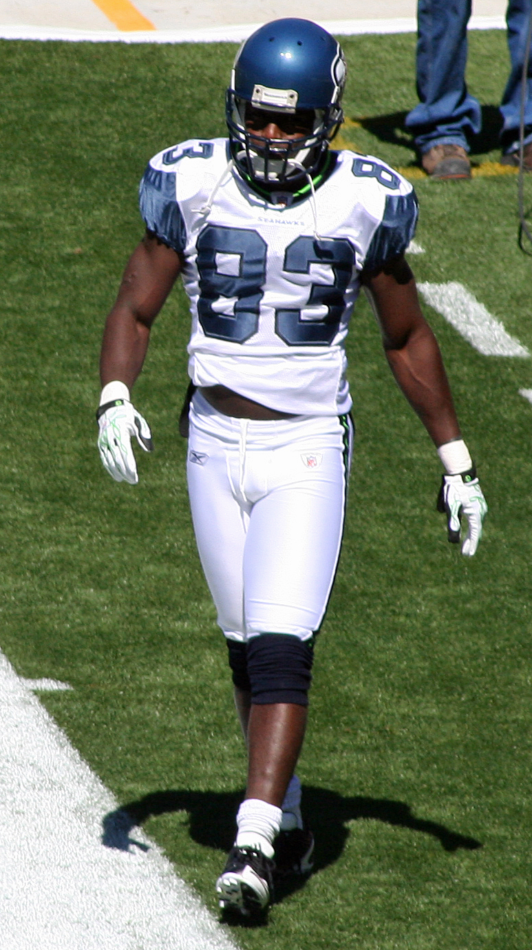 Deion Branch, a player onthe Seattle Seahawks American footbal team.